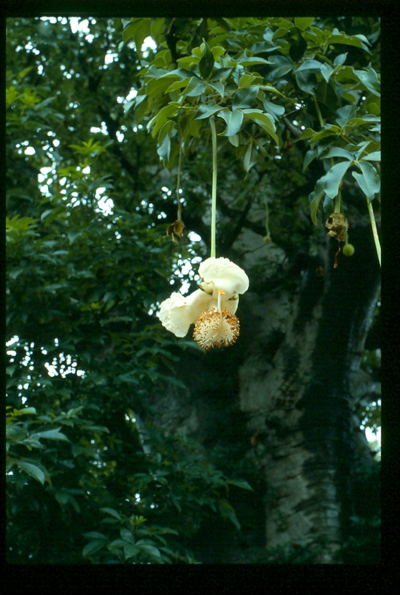 Suspended from the tree the Village (Kuka Mai Lumba) was named - for, are Baobob flowers, 1983. Kuka = Baobob, Mai Lumba = with Sign on it.